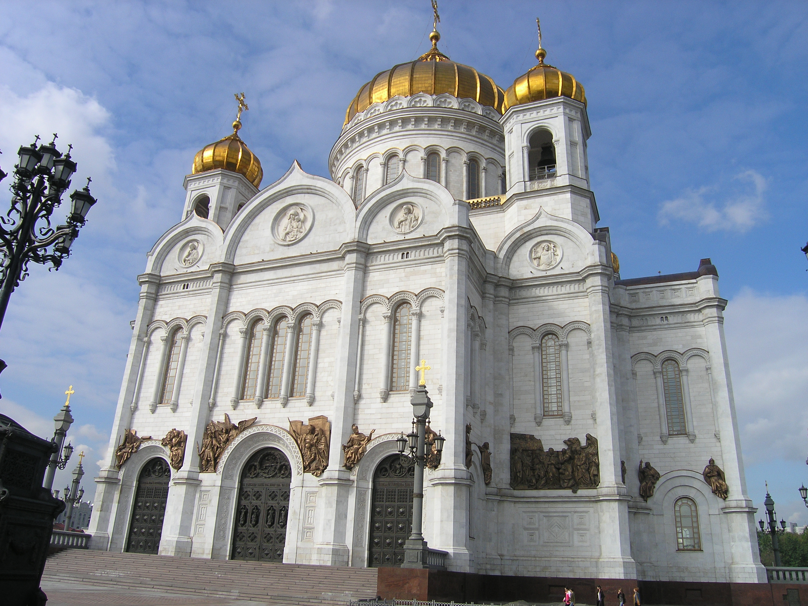 Cathedral of Christ the Saviour. Moscow, Russia.